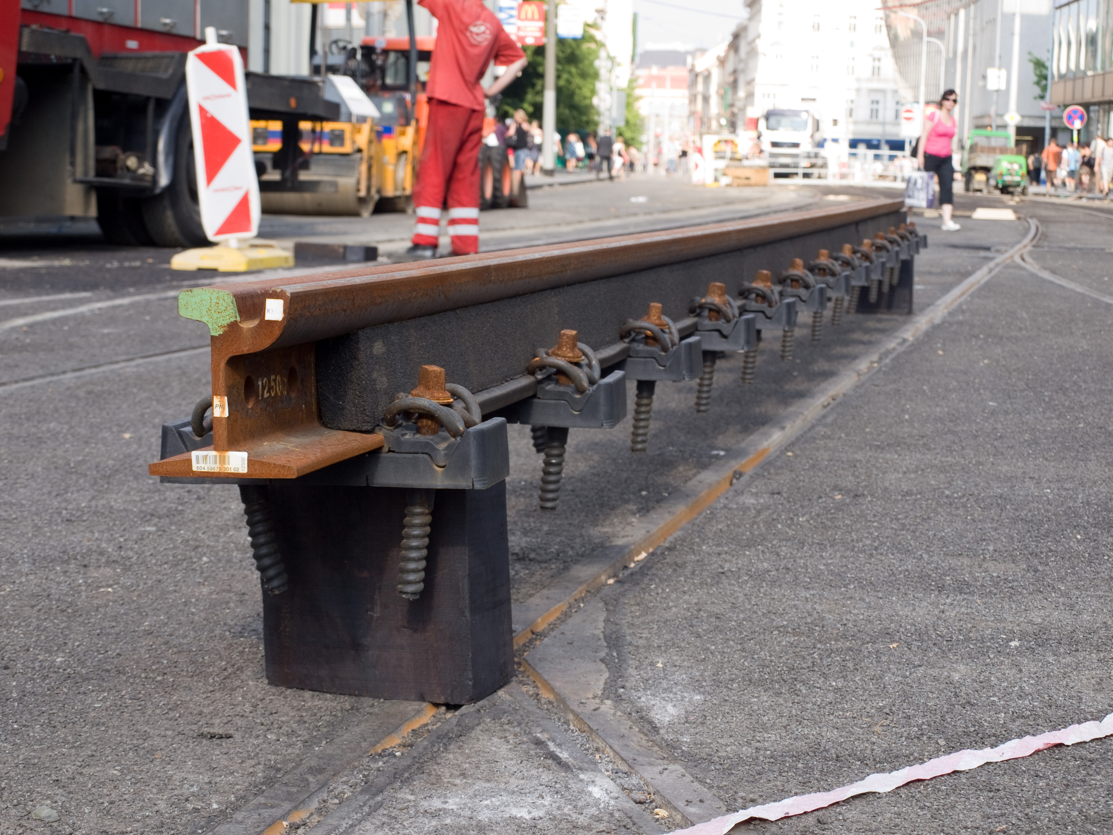 Rail with w-tram, reconstruction of tram track Anděl – Sídliště Řepy